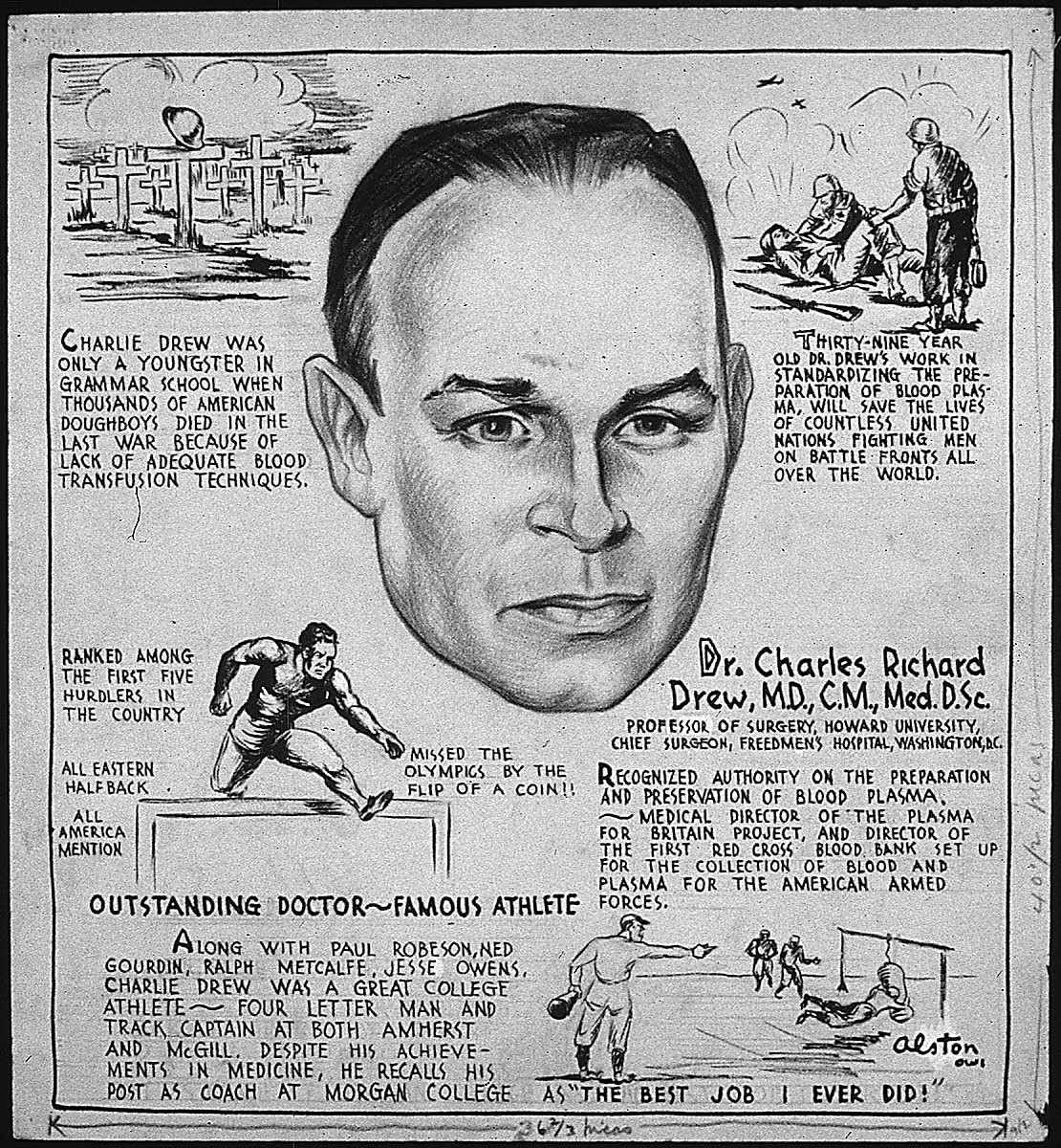 DR. CHARLES RICHARD DREW, M.D., C.M., MED. D.Sc. - PROFESSOR OF SURGERY, HOWARD UNIVERSTITY, CHIEF SURGEON, FREEDMESN'S HOSPITAL, WASHINGTON, D.C., 1943. By Charles Alston